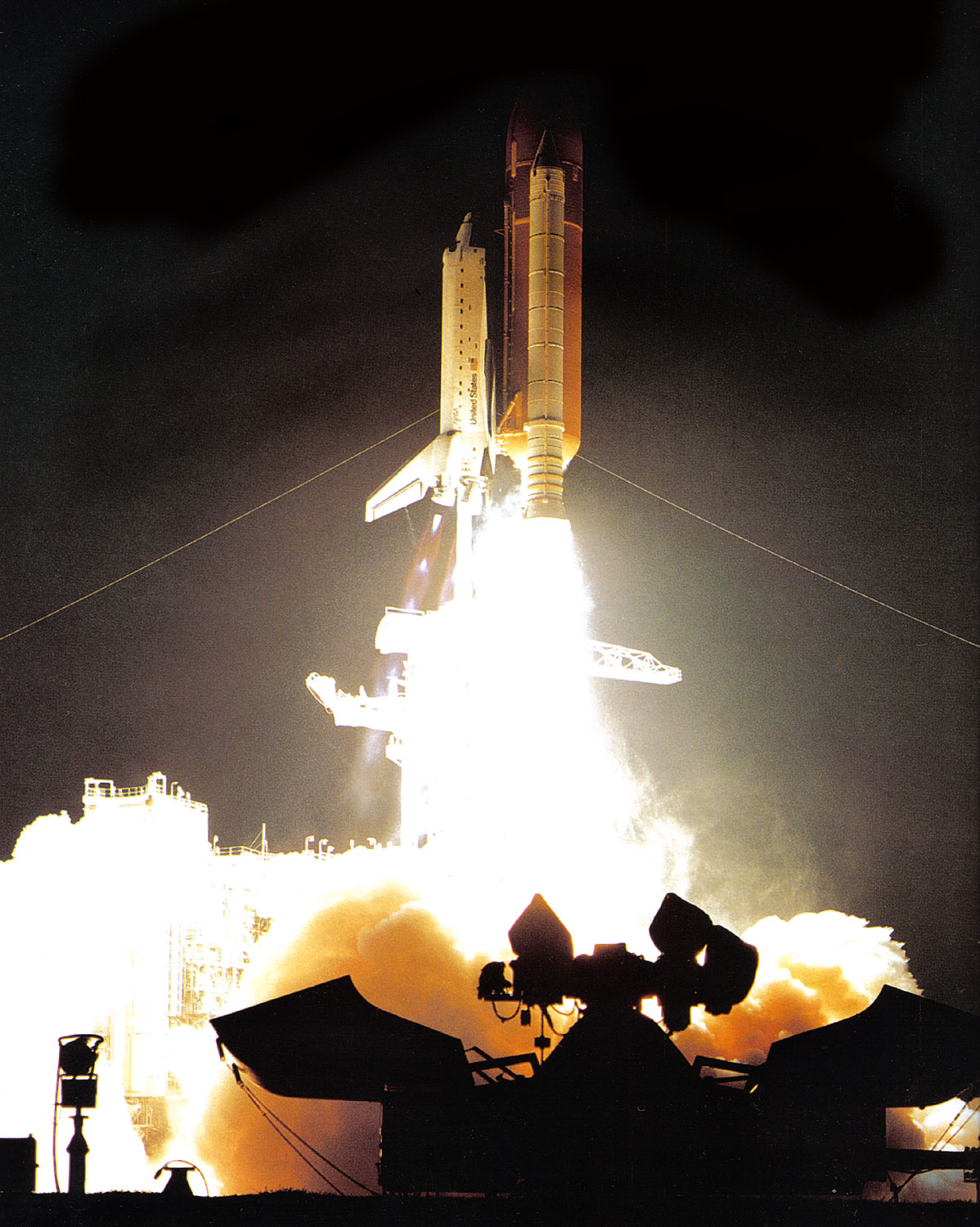 Launch of Discovery on mission STS-33. First night launch of shuttle after Challenger disaster.